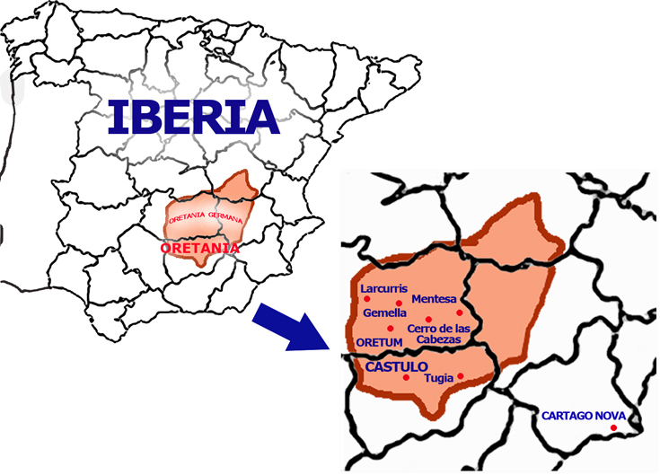 ORETANIA